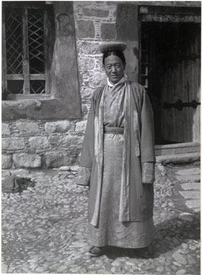 Shokhang in official dress, Lhasa. The source identifies him as zhol khang don grub phun tshogs, who died in 1925-1926, but the photo is taken in 1936-1937, so it's probably another Shokhang, Surkhang Wangchen Gelek instead.